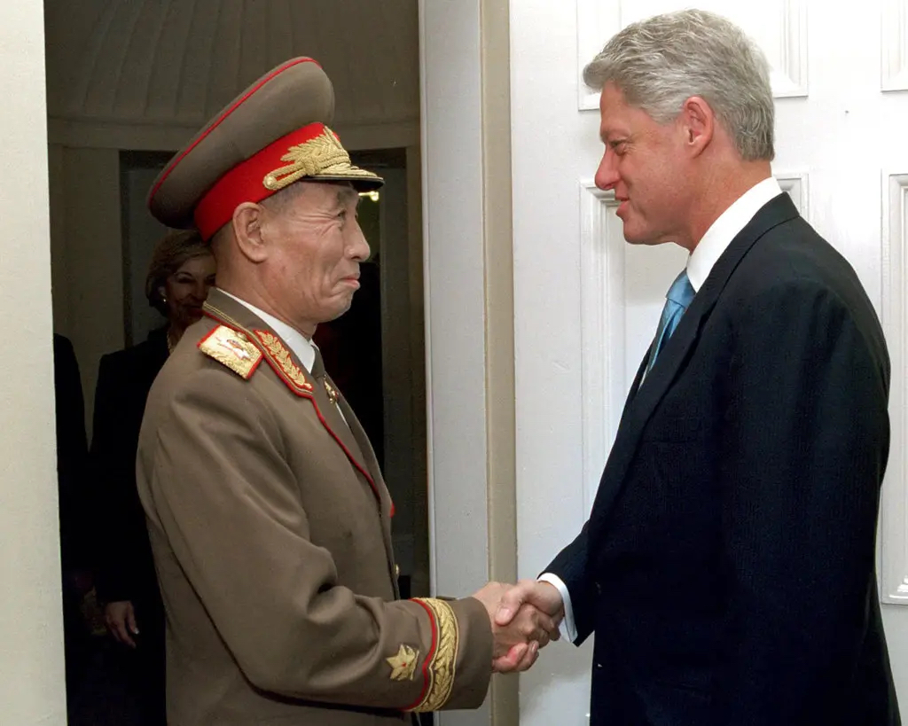 Meeting with Special Envoy Vice Marshal Cho Myong-nok, First Vice Chairman of the National Defense Commission of North Korea, in the Oval Office, October 10.